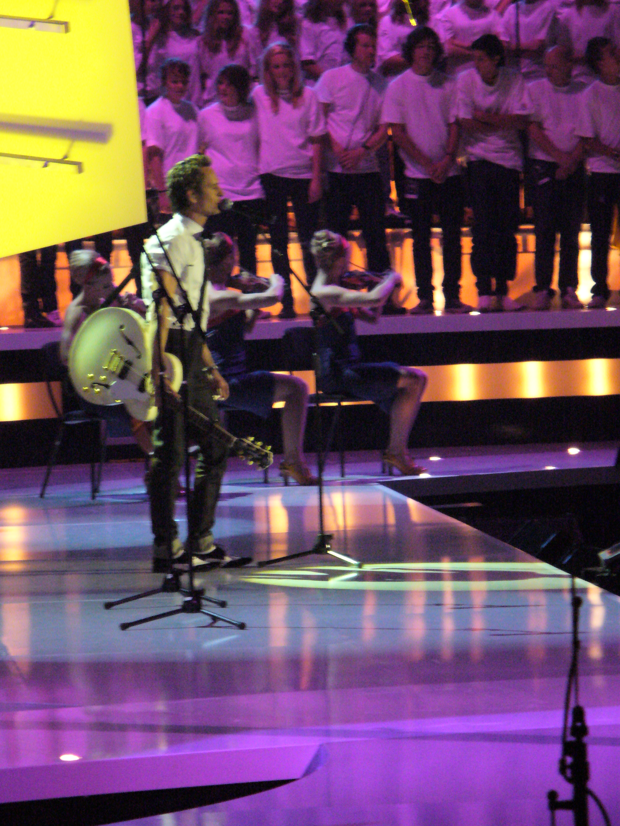 Swedish singer Thomas Eriksson, a. k. a. Orup, performing at the Swedish Football awards.